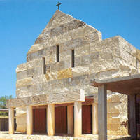 Cistercian Chapel at Irving, TX